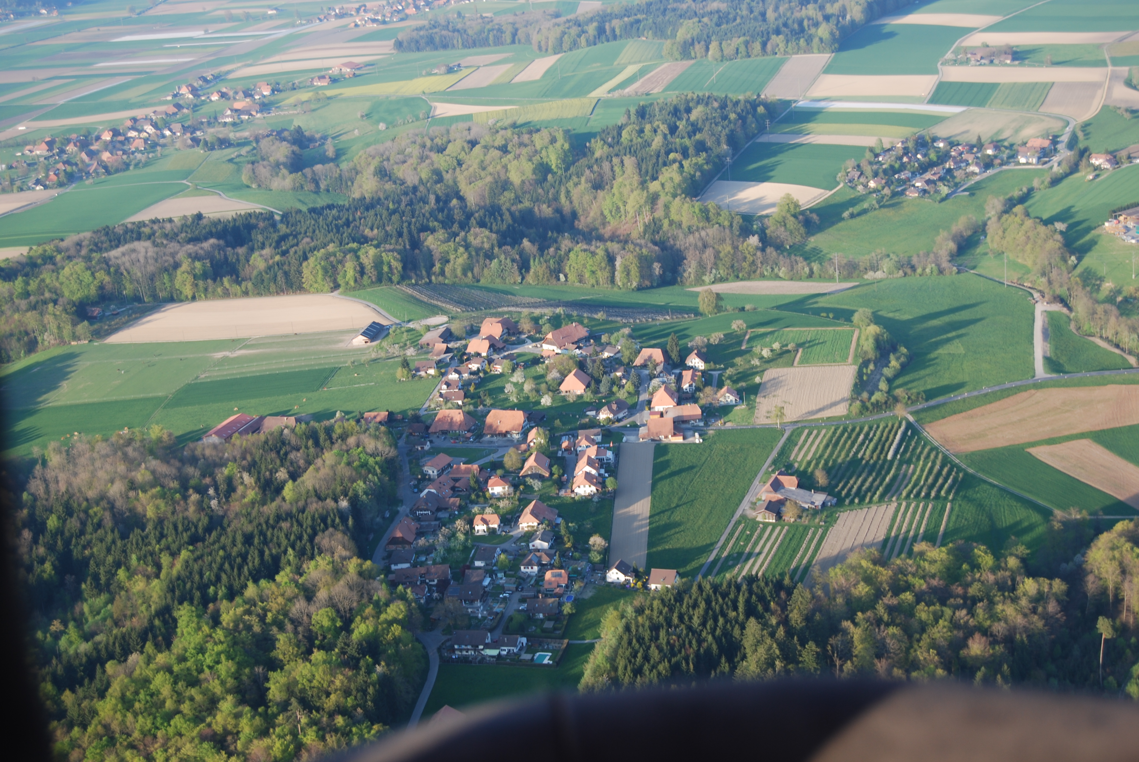 Brunnenthal (municipality of Messen, canton of Solothurn), Mülchi and Etzelkofen, canton of Berne, Switzerland